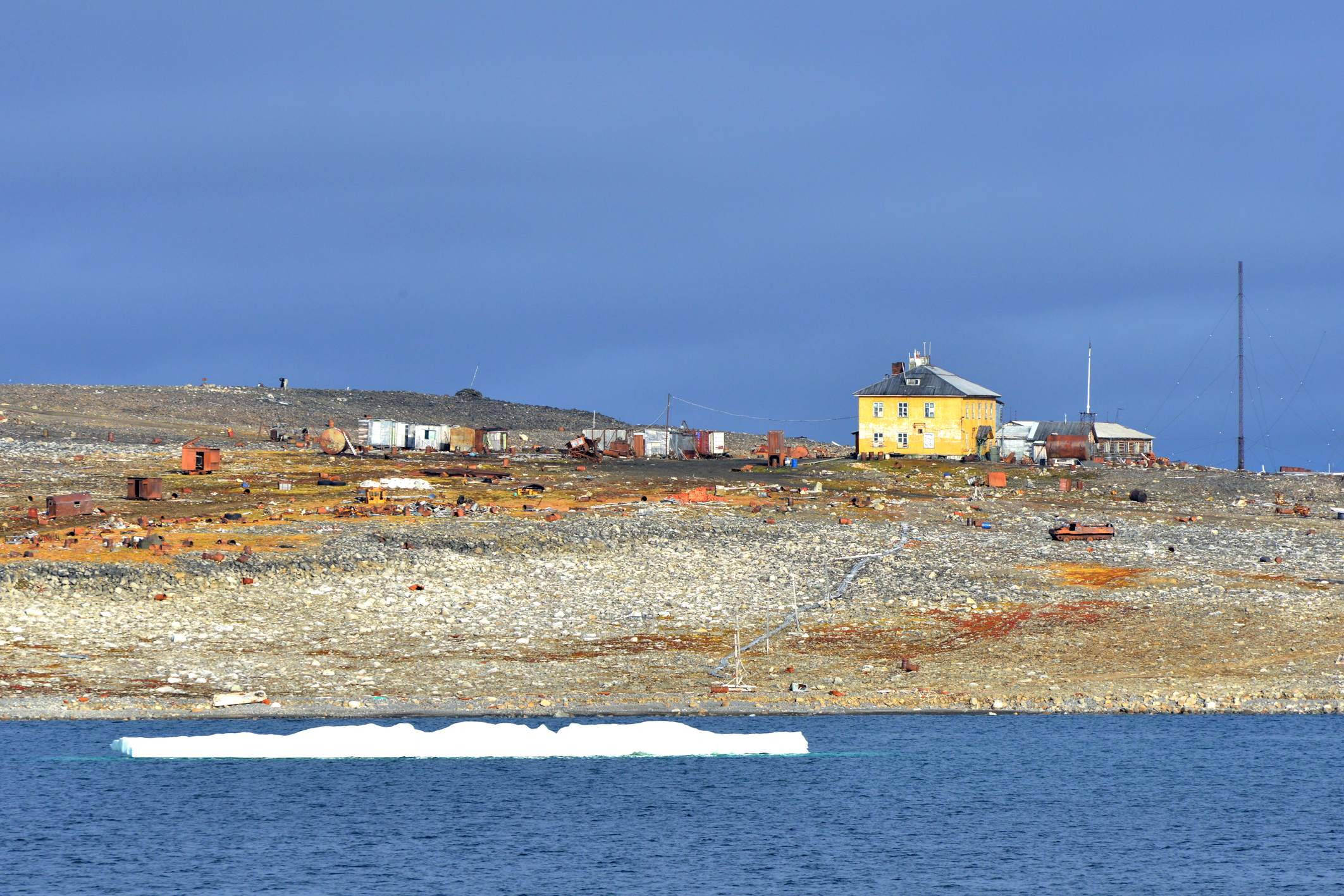 Solnechnaya Bay (Southern coast of Bolshevik Island, Severnaya Semlya, Russia; 78°11’N, 103°7’E)